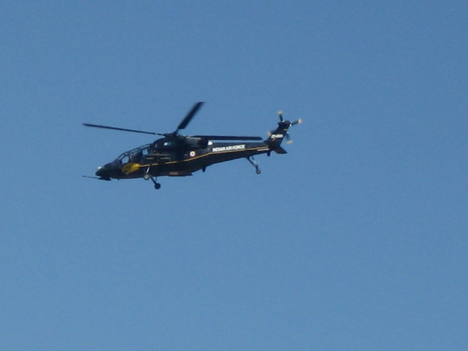 HAL Light Combat Helicopter flying during Aero India 2011